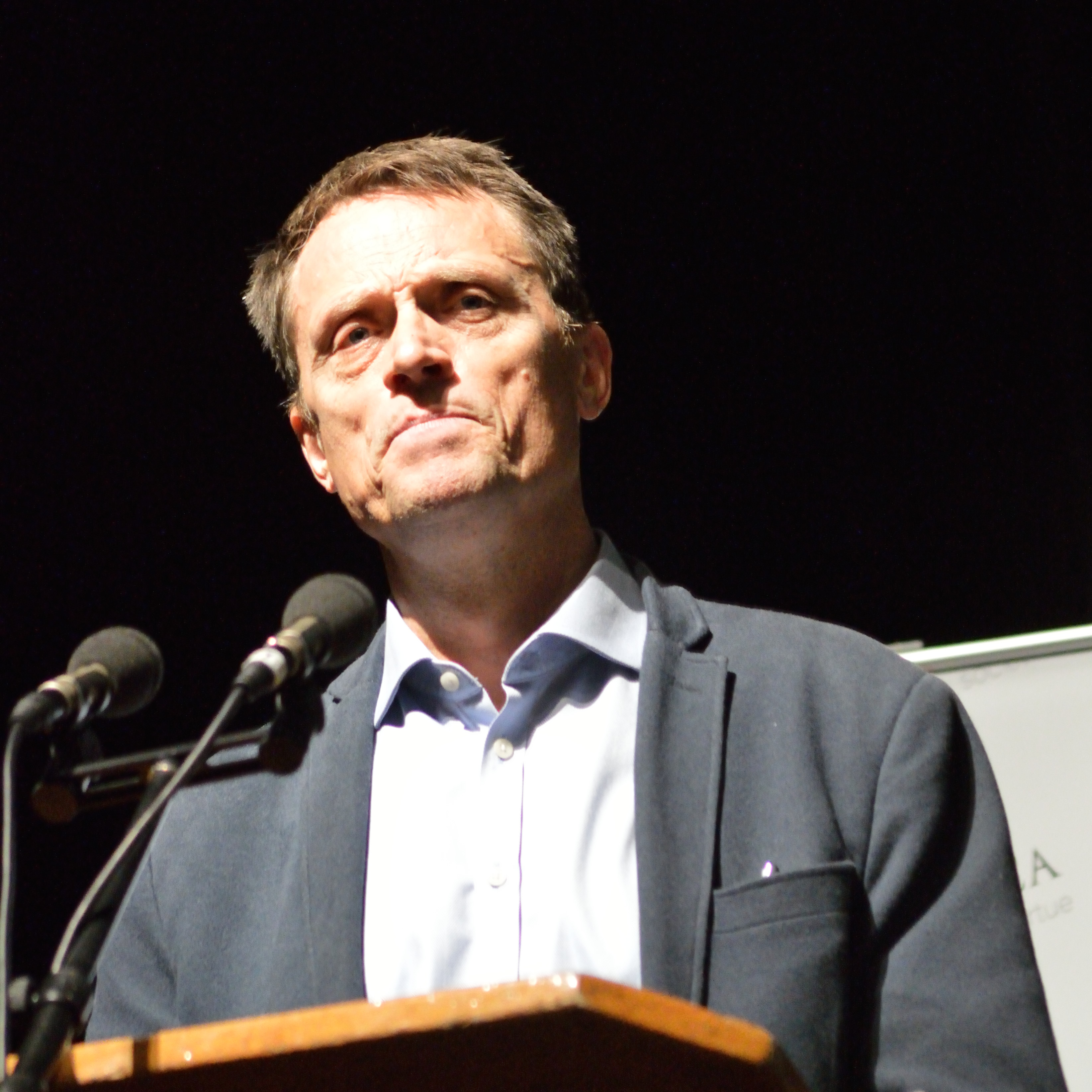 Matthew Taylor, Chief Executive of the Royal Society of Arts, speaking at the ResPublica Tomorrow's Democracy day conference at The Riverfront, Newport, on 5 November 2018.